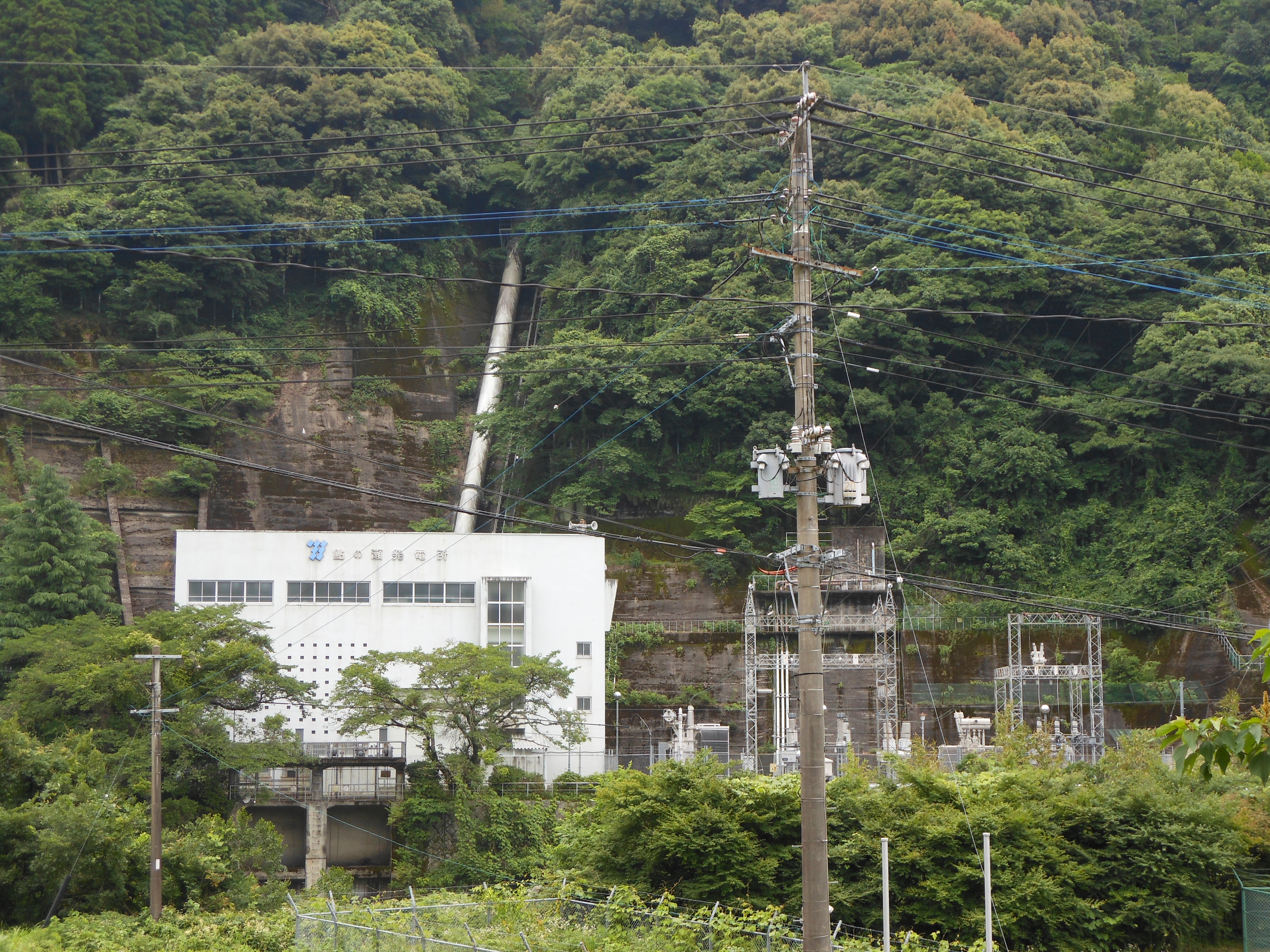 Ayunose hydro power station